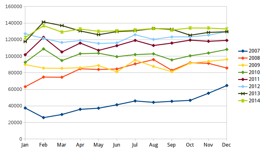 Monthly averages of daily ridership on the trains of Taiwan High Speed Rail Corporation (THSRC). Chart created in LibreOffice Calc and made transparent with Gimp.